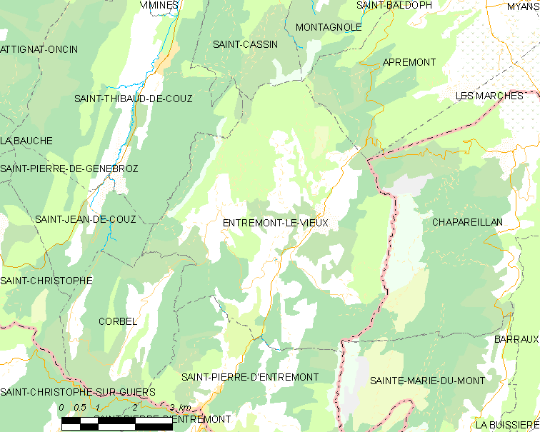 Map of French municipality